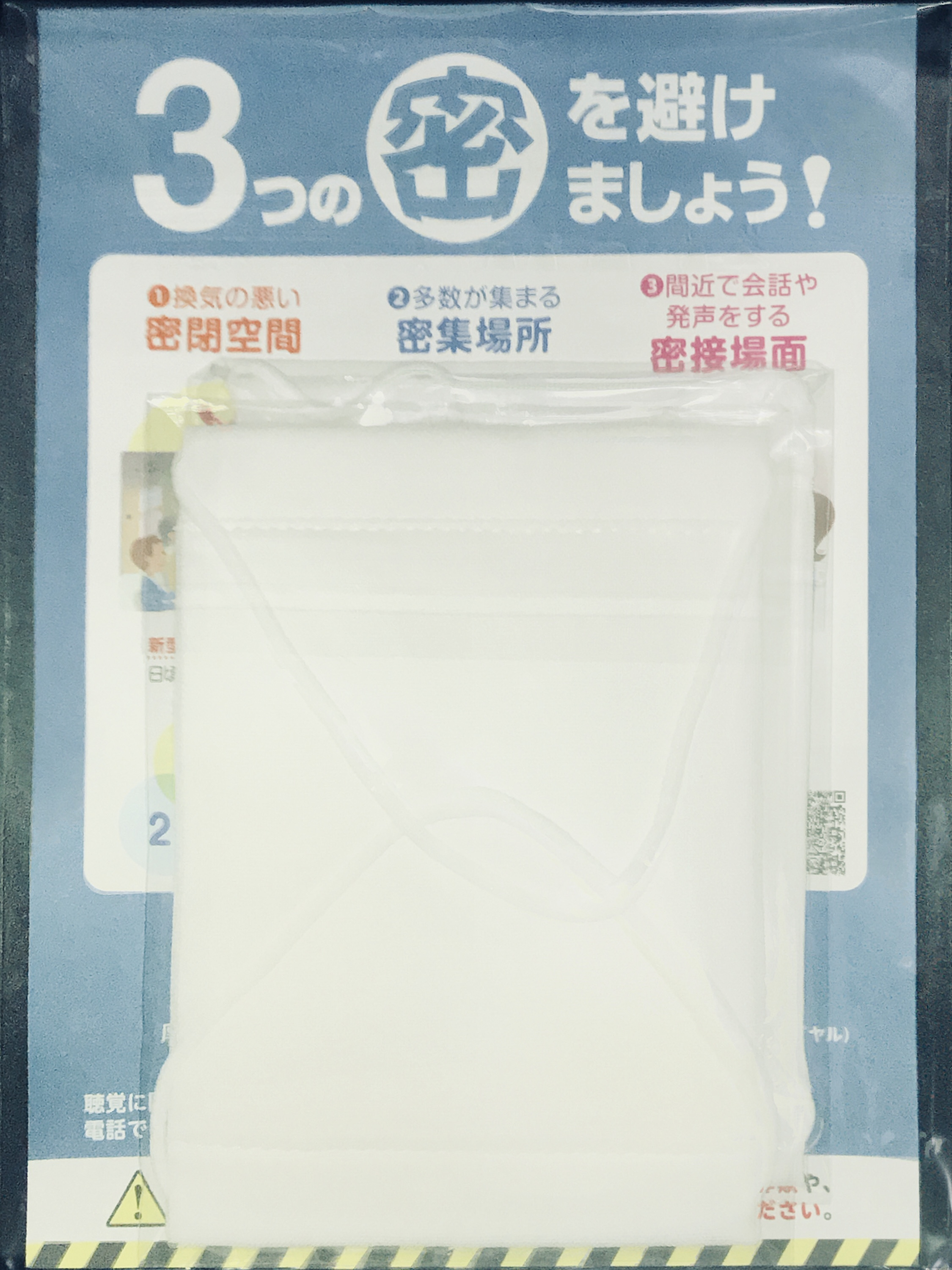 This is an image file of an unopened, unused package of cloth masks that was actually sent to me by Ministry of Health, Labour and Welfare.